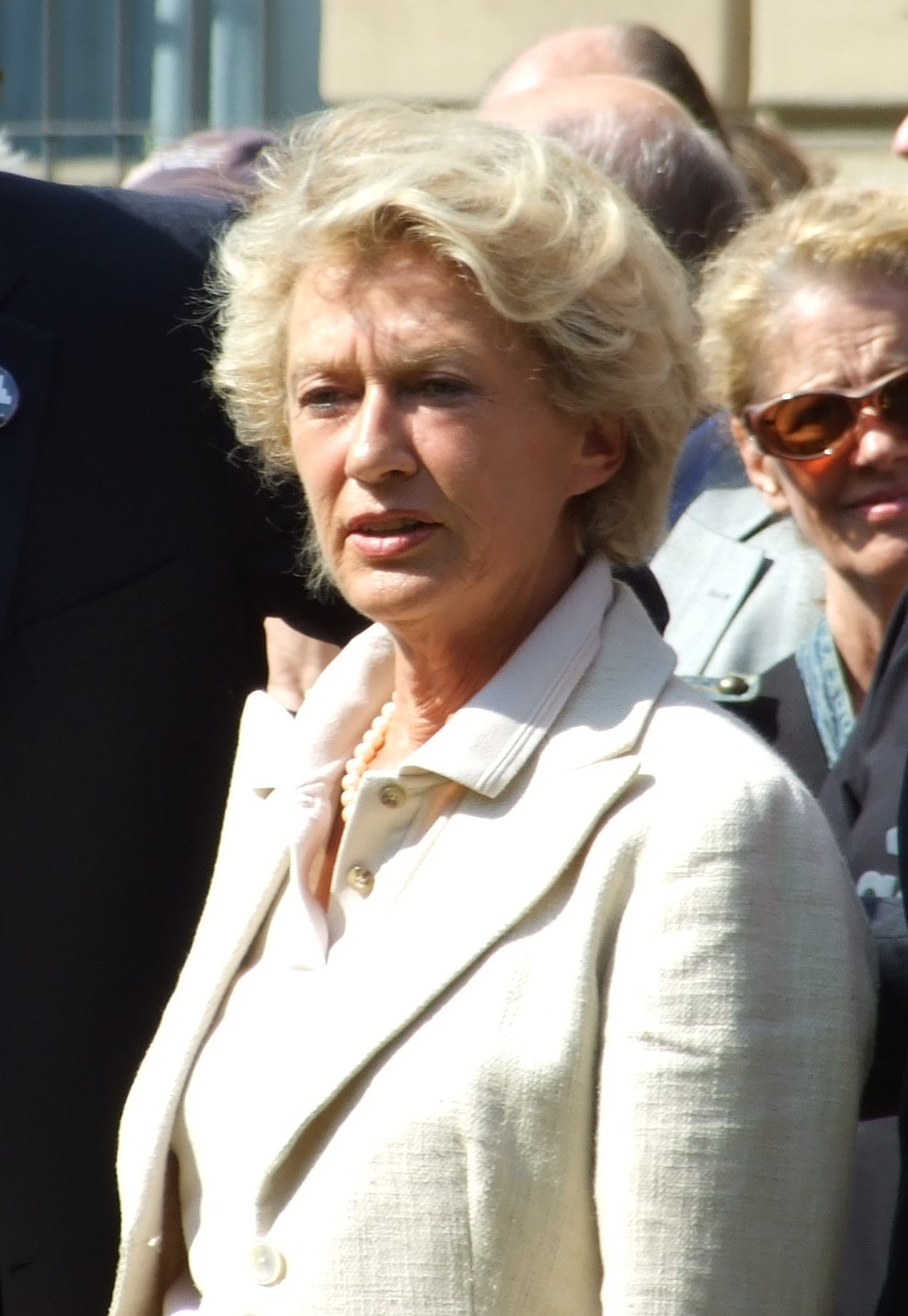 Petra Roth, mayor of Frankfurt am Main (2009)